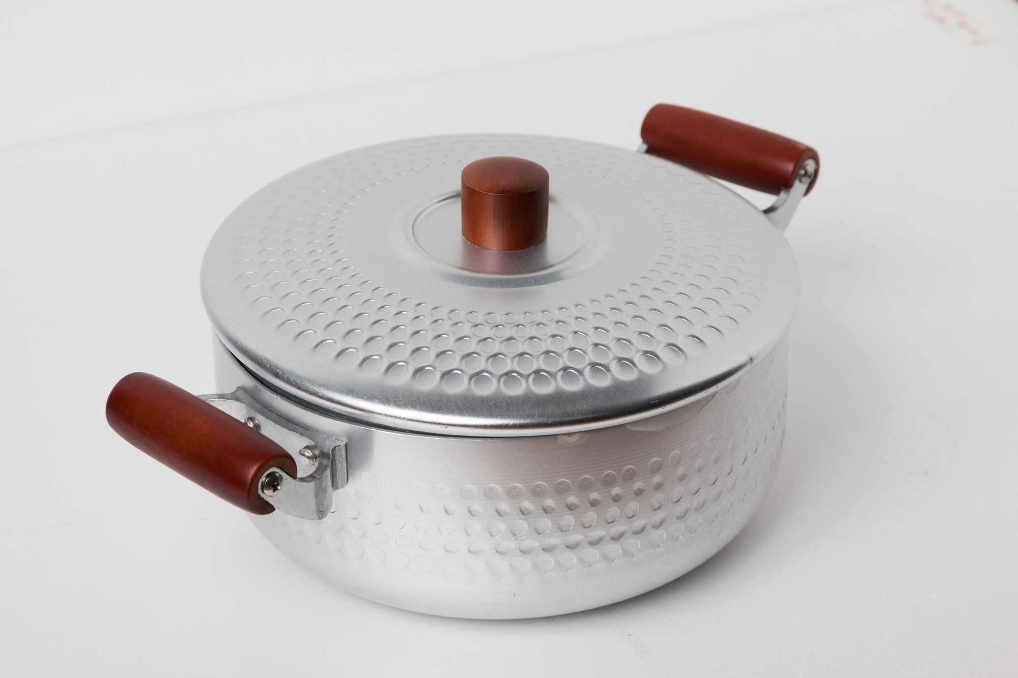 Nickel silver pot